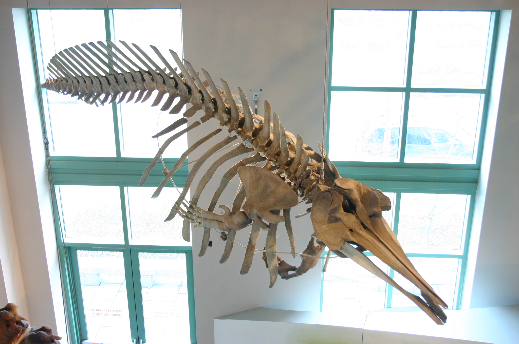 Skeleton of True's Beaked Whale (Mesoplodon mirus) Visit my blog at